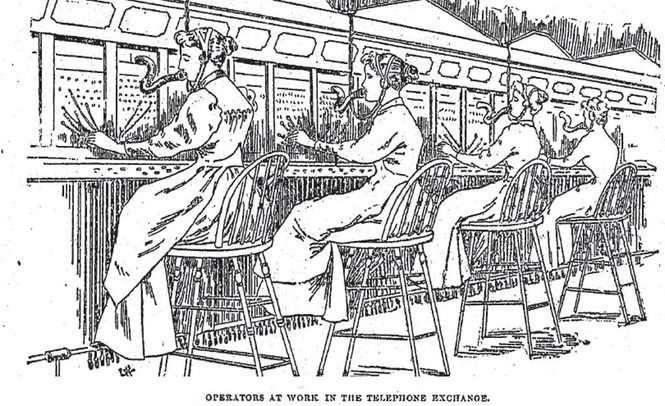 "Operators at Work in the Telephone Exchange", New Orleans, 1893